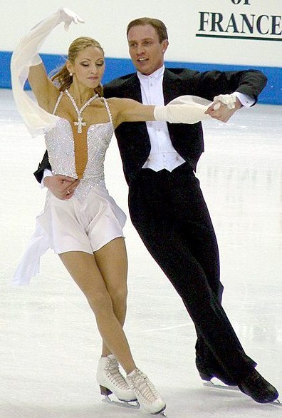 Tatiana Navka and Roman Kostomarov at the 2005 European Figure Skating Championships